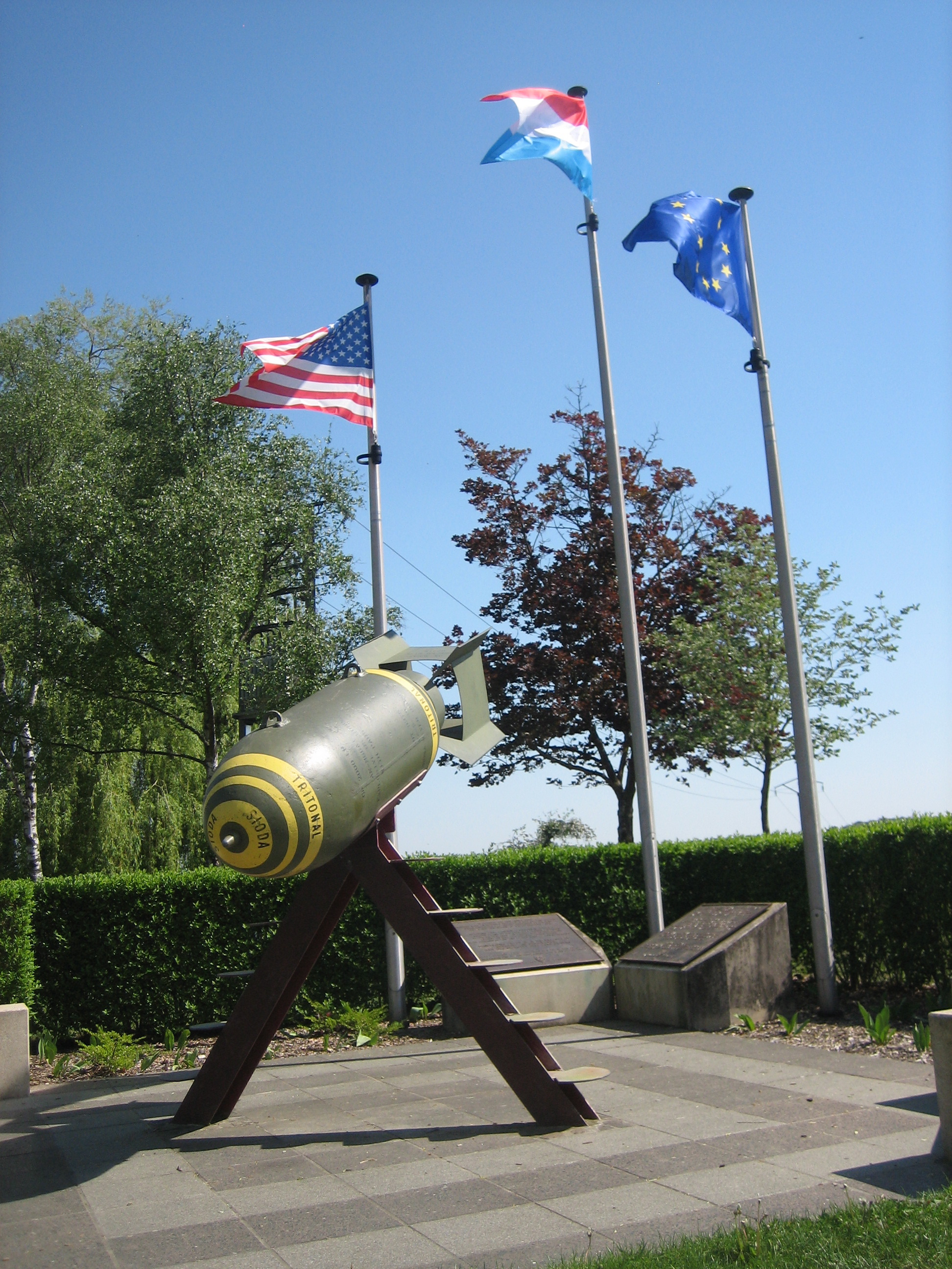 Aerial delayed action bomb, dropped in October 1944 a field near Consdorf, Luxembourg, to unballast a B17F Flying Fortress bomber returning from a mission to Germany. The bomb weighted 907 kg and contained 447 kg of tritonal. It was dug out and defused in 1990 by the mine clearance department of the Luxembourg Army. In 1994 it was displayed as a memorial by the municipality of Consdorf.